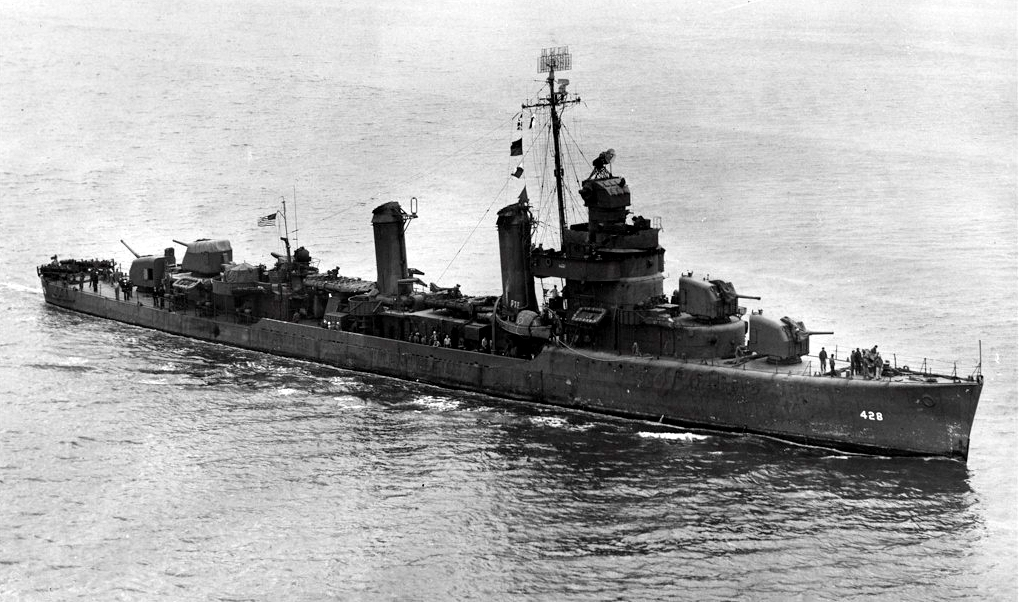 The U.S. Navy destroyer USS Charles F. Hughes (DD-428) off Charleston, South Carolina (USA), in 1945. She is painted in Measure 21 camouflage.